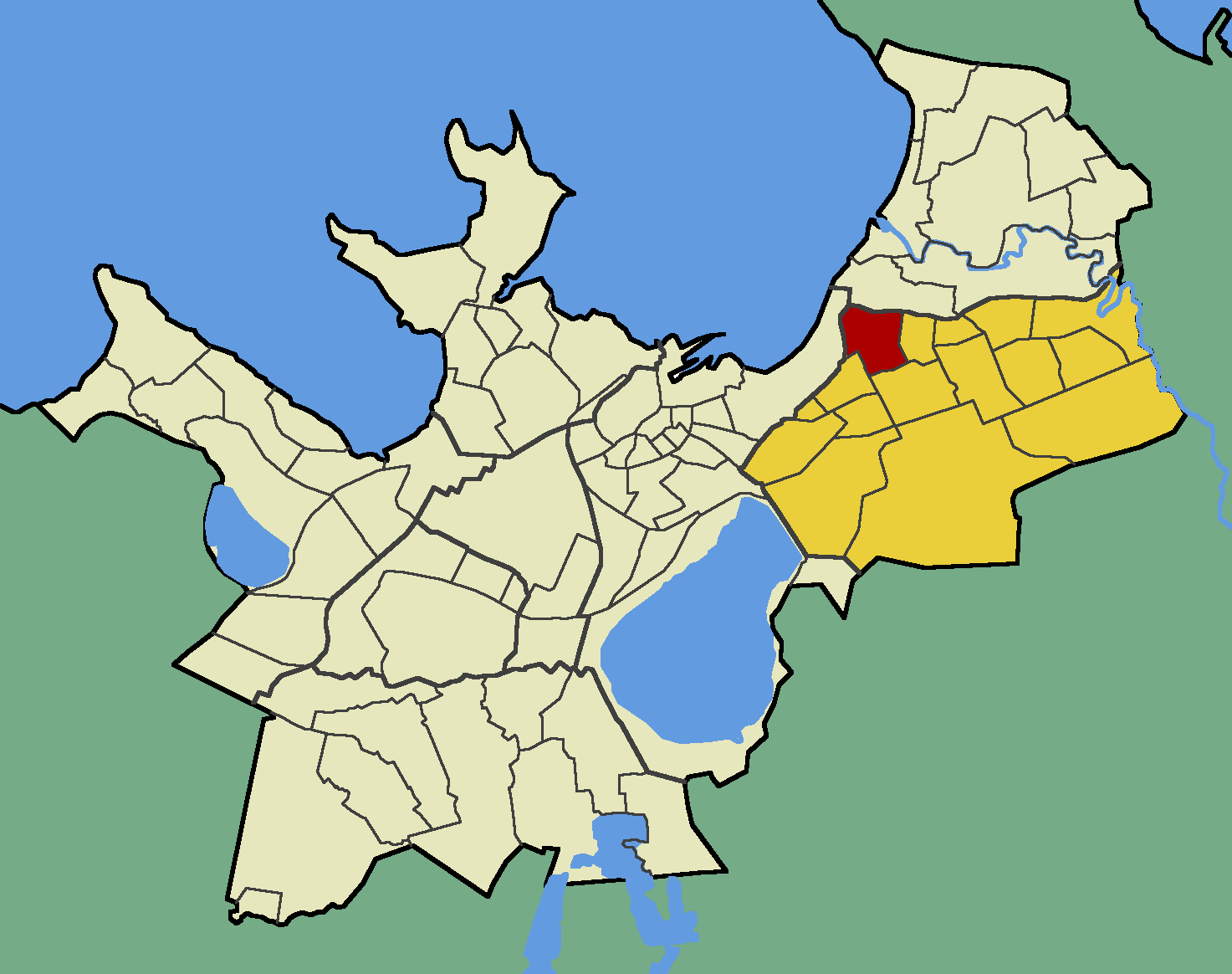 Map of Tallinn (Estonia) with borders of the quarters, Lasnamäe district and Paevälja quarter emphasised